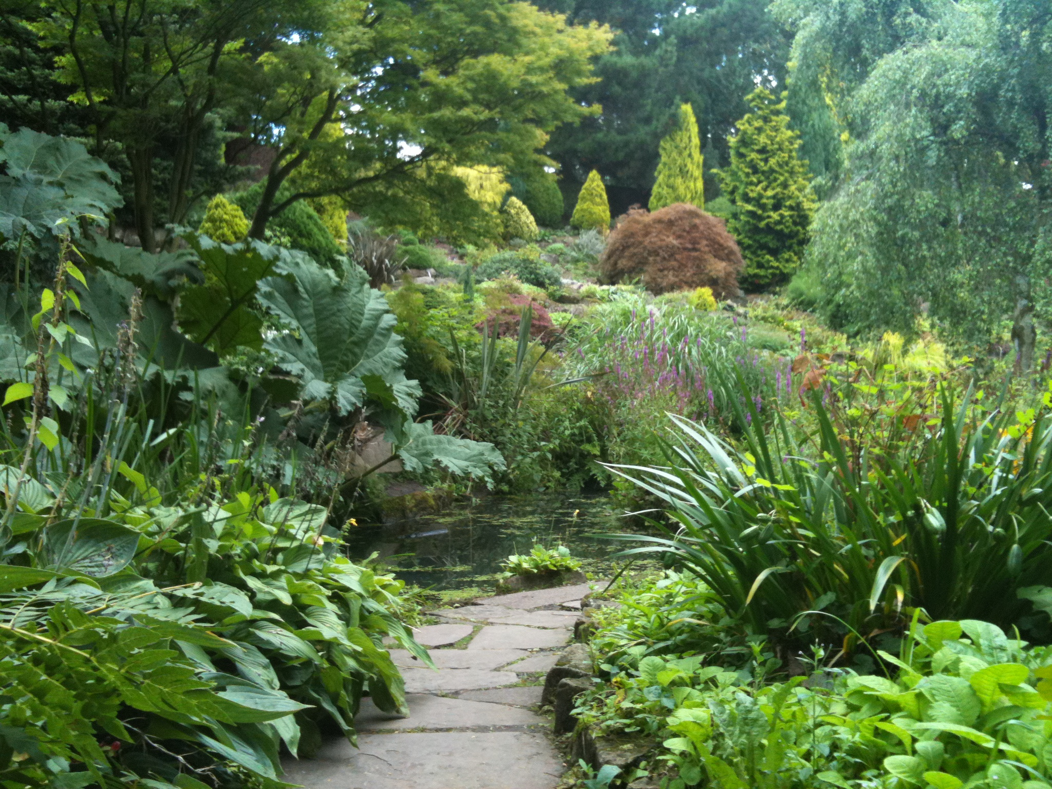 Giant gunnera around the pond in Fletcher Moss Botanical Garden, Didsbury, Manchester